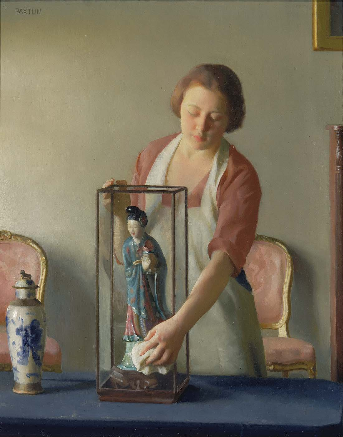 A model painted